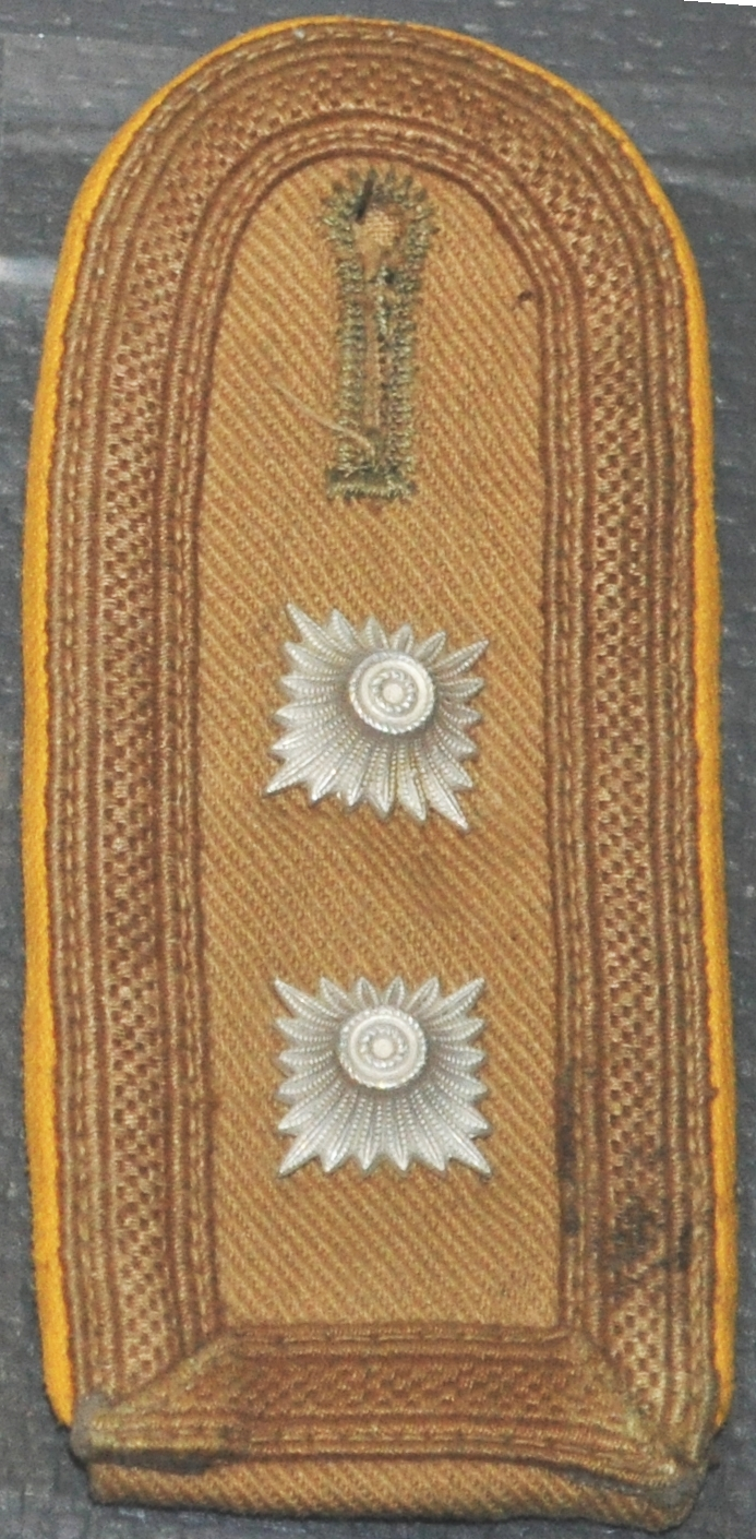 Military decorations of the Third Reich. Fort Lewis Military Museum, Fort Lewis, Washington, USA. Cavalry NCOs shoulder strap, tropical uniform.